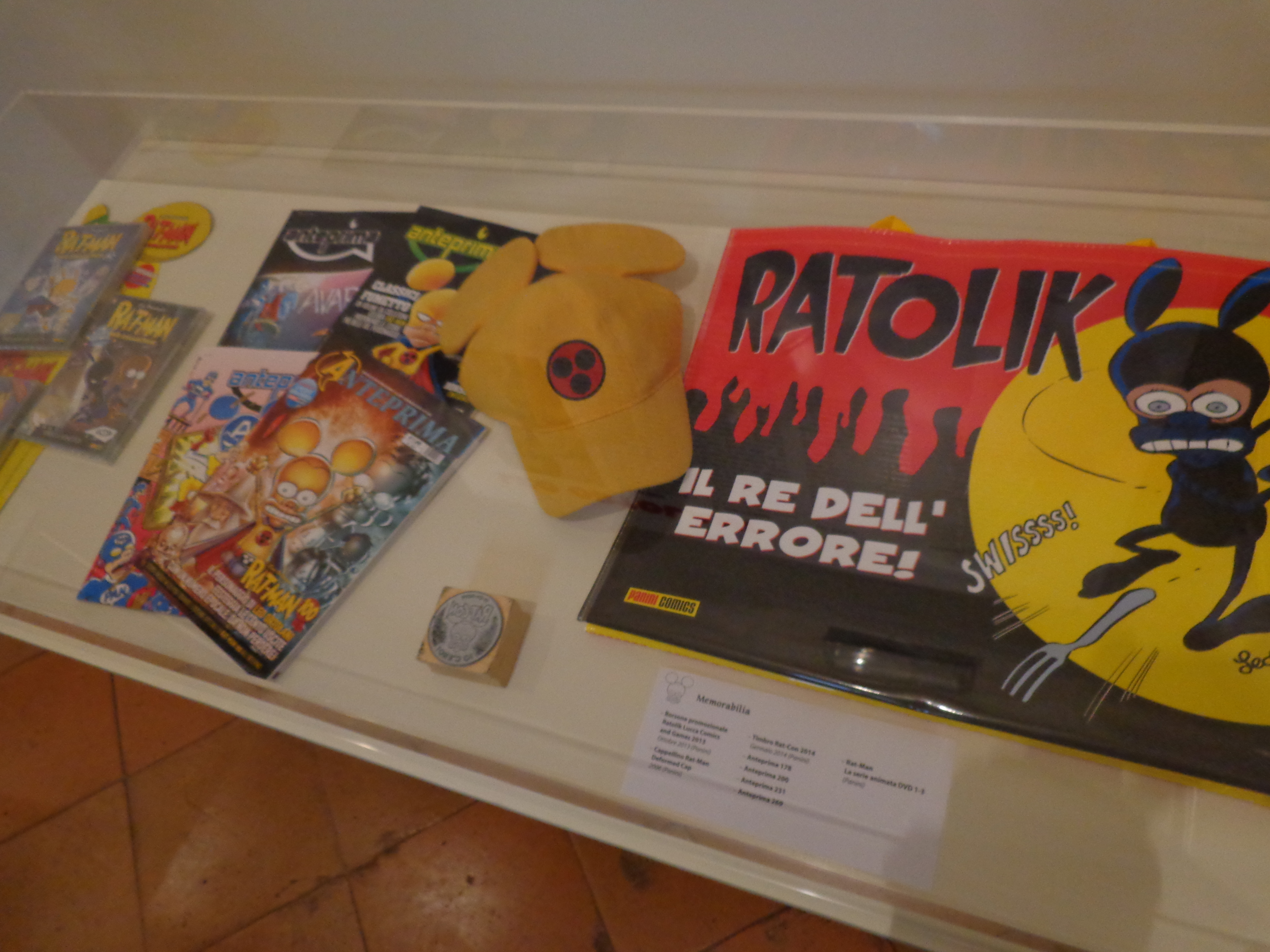 2014 Rat-Con in Parma (celebrations for the 100th issue of the comic Rat-Man)